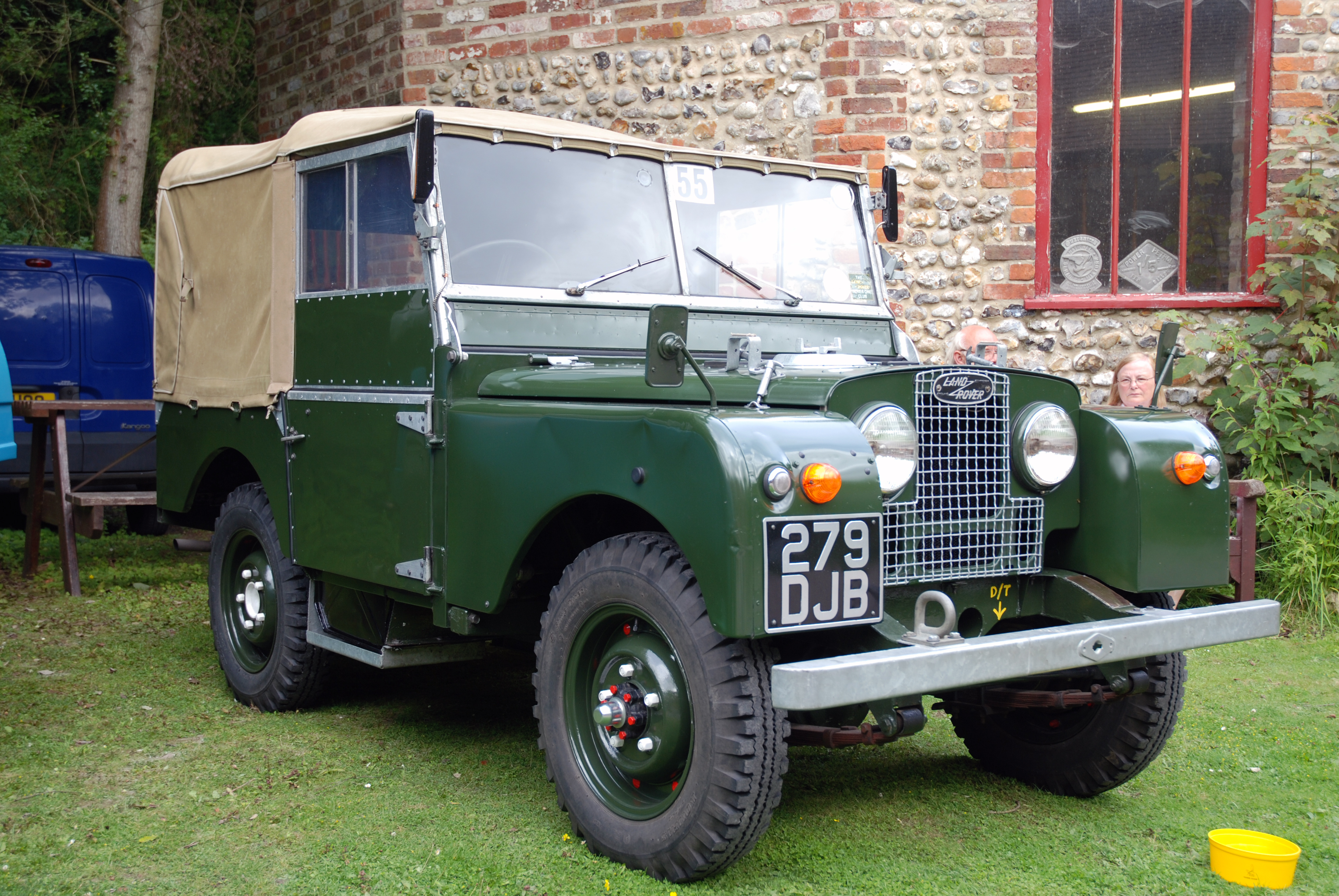 Amberley Working Museum,July 2009